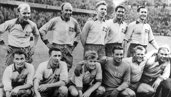 The Swedish squad that won silver 1958 FIFA World Cup: front row from left: Kurt Hamrin, Reino Börjesson, Orvar Bergmark, Kalle Svensson, Sven Axbom and Sigge Parling. Standing from left: Lennart "Nacka" Skoglund, Gunnar Gren, Agne Simonsson, Bengt "Julle" Gustavsson and Nils "Il Barone" Liedholm.